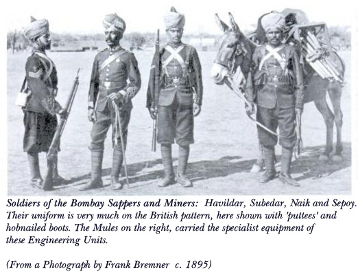 Bombay Sappers Uniform